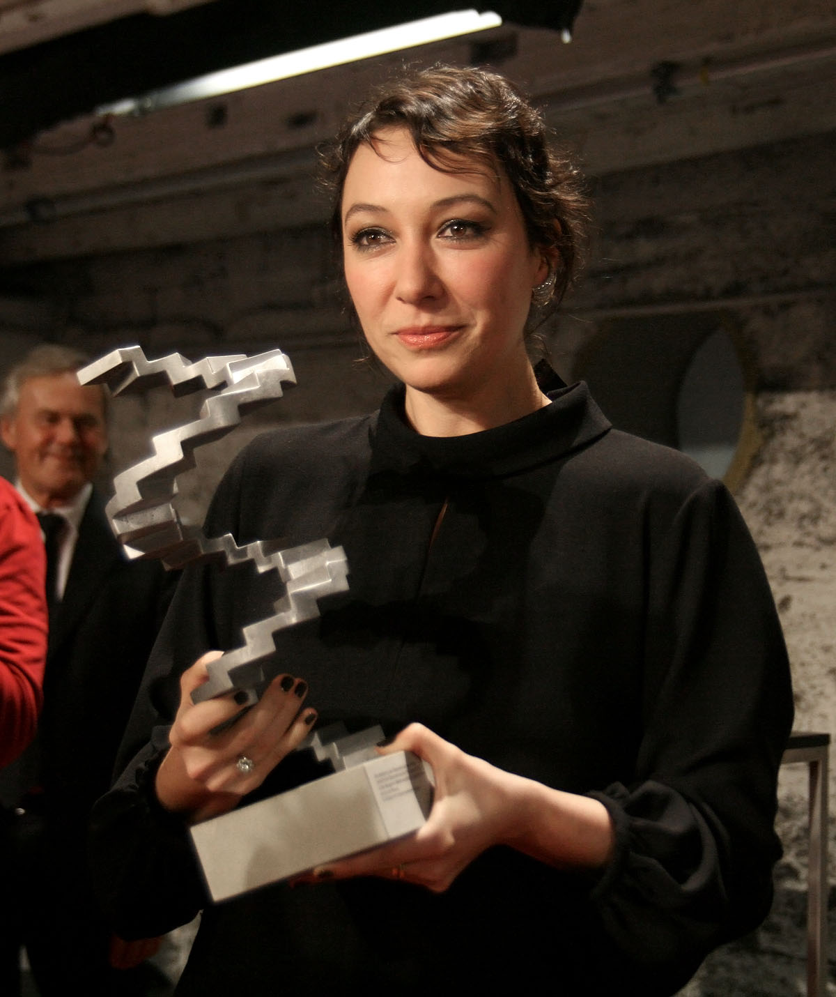 Ursula Strauss, Austrian Film Awards 2012 (Vienna).